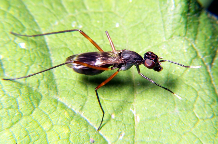 Adult stilt-legged fly in the Diptera family Micropezidae, Taeniaptera trivittata